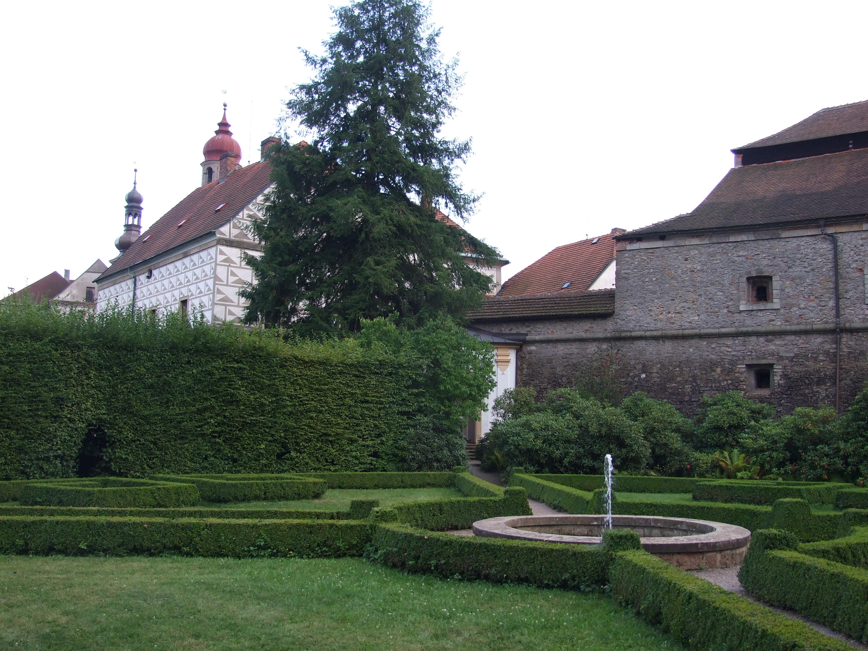 Castle of Náchod